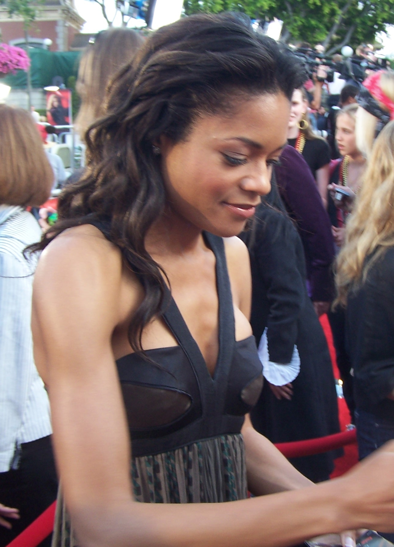 English actress Naomie Harris.